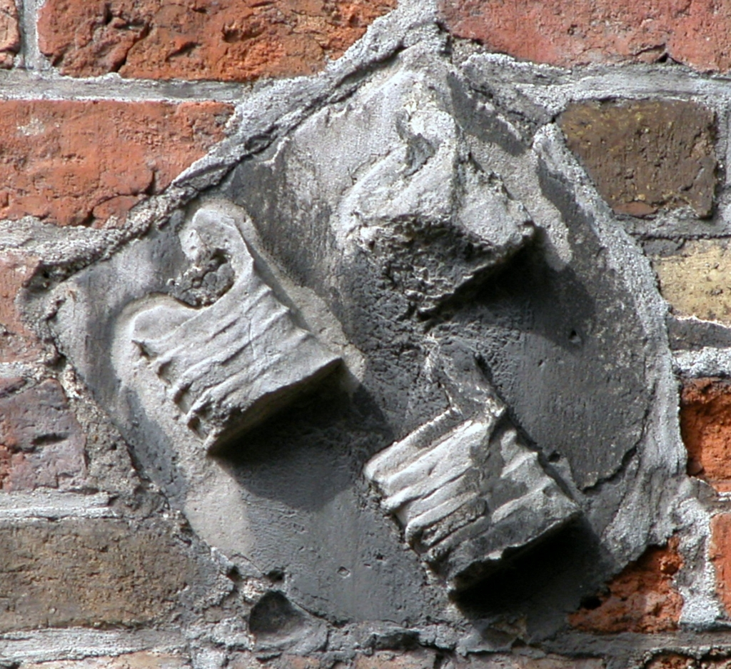 Braunschweig, Germany: Liberei: Coat of arms of Johannes Embern.